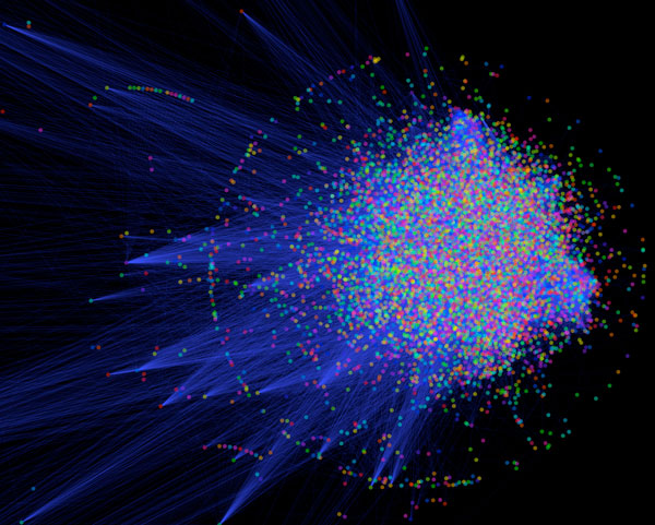 Human Interactome network visualized by Cytoscape 2.5.